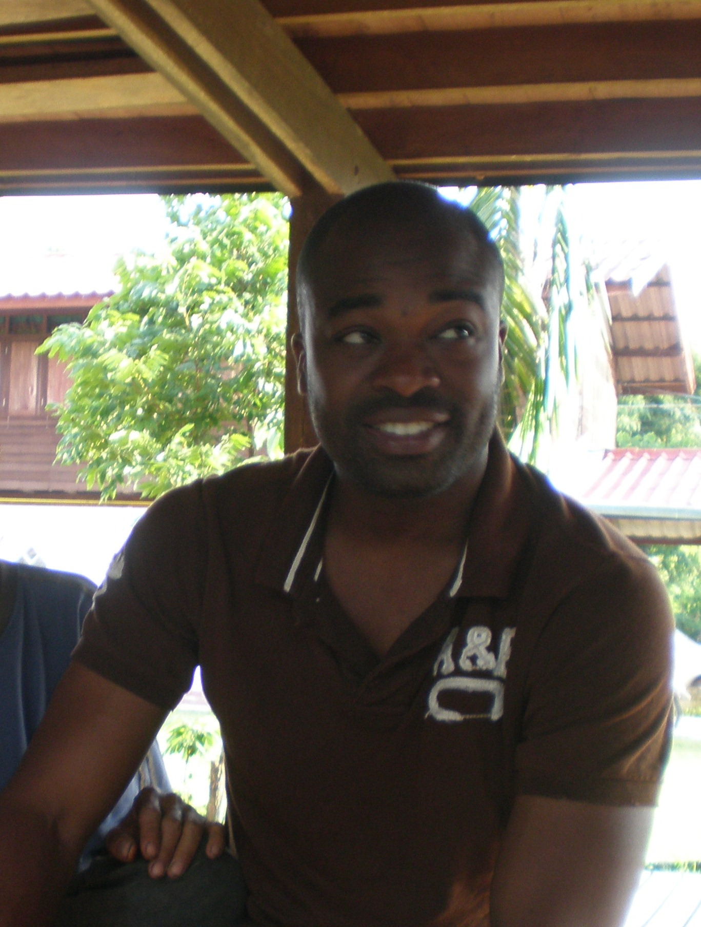 Ramon Beuk